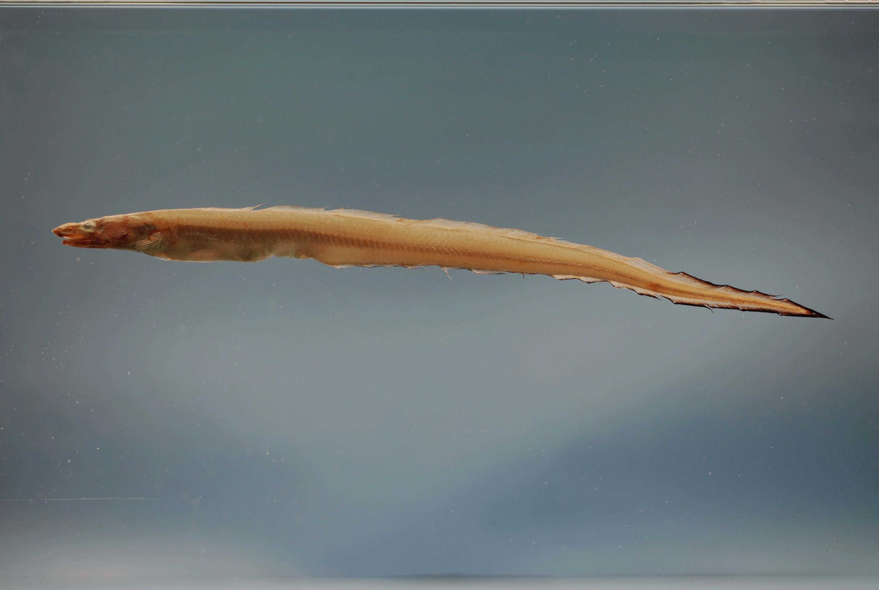 Yellow conger ( Rhynchoconger flavus ). Gulf of Mexico.